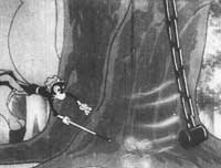 Screenshot from Princess Iron Fan (1941 film).